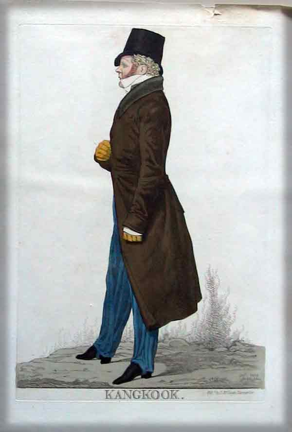 'Kangkook' (Sir Henry Frederick Cooke) by and published by Richard Dighton, reissued by Thomas McLean, hand-coloured etching, published December 1819 Engraving with added hand-colour. Printed on watermarked laid paper. Name of subjects inscribed in contemporary script on bottom of image.